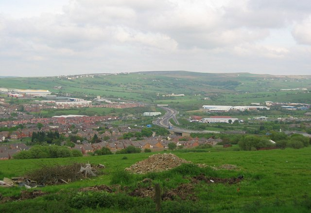 Earcroft. The nearer houses of Earcroft are in the square which is also occupied by grazing land for sheep and cattle above Blackburn. The motorway is the M65, the new motorway has spawned a lot of tin sheeting big buildings, often distribution centres. In the foreground a hole has recently been dug, being a hill top above a motorway, I suspect a foundation for a phone mast?